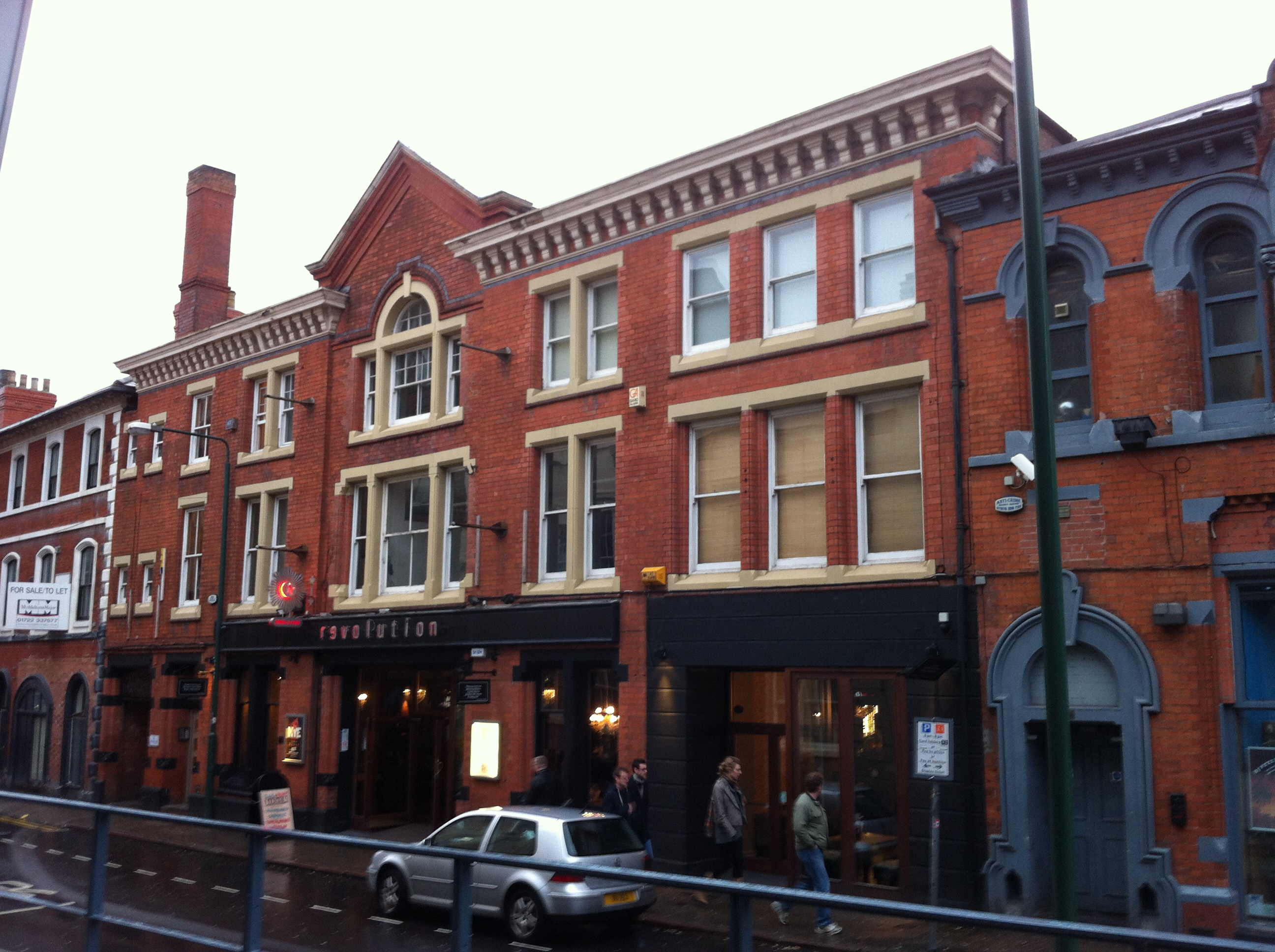 Built in 1818 as the General Baptist Chapel.